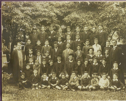 Students and teachers of Trinity Grammar School in 1913. The first school photograph.